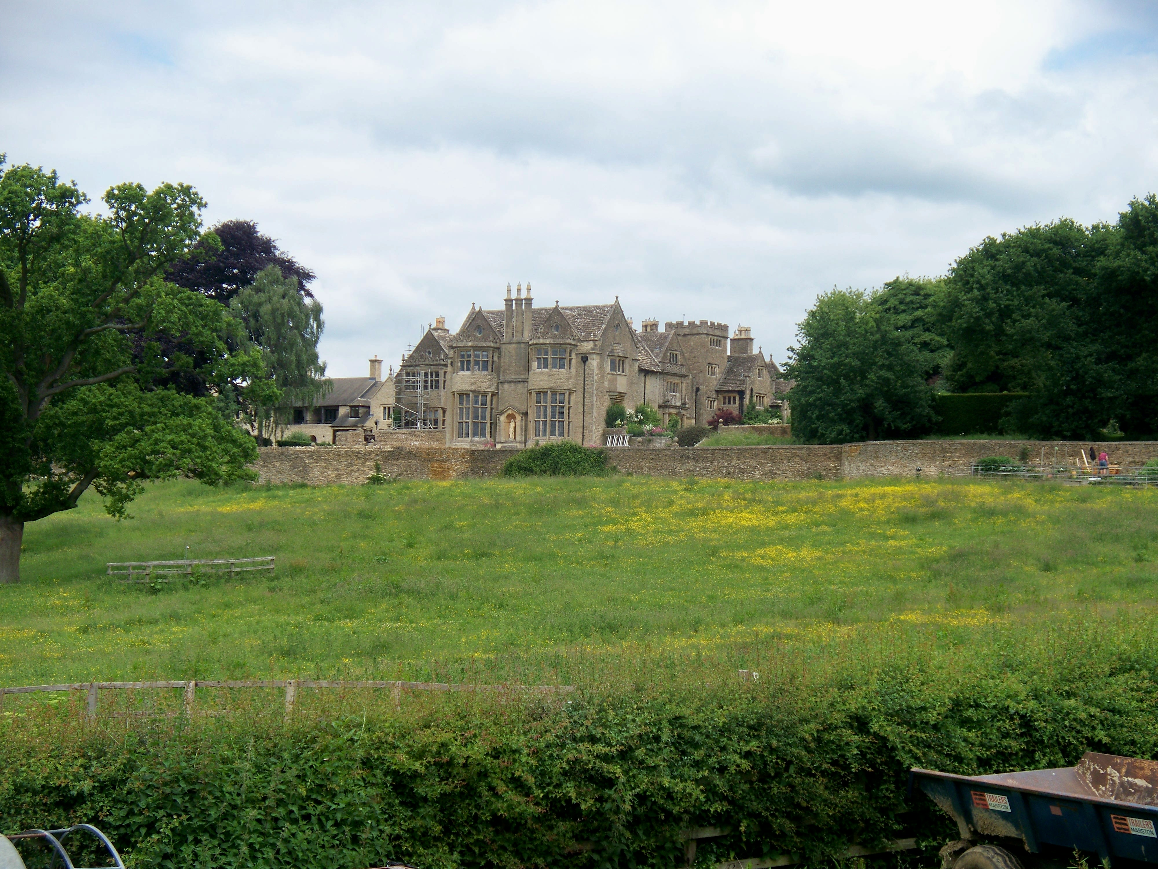 Nether Swell Manor, near to Lower Swell, Gloucestershire, Great Britain. Seen from the footpath. The word Nether means lower.